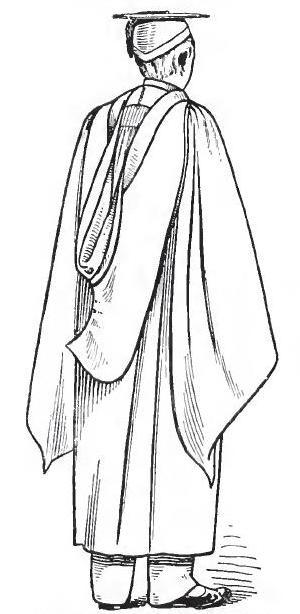 This image shows the hood and the back of a gown as worn by someone of the degree of bachelor of arts. The design follows that set forth by the Intercollegiate Code of Academic Costume which is the dominant style used in the United States.